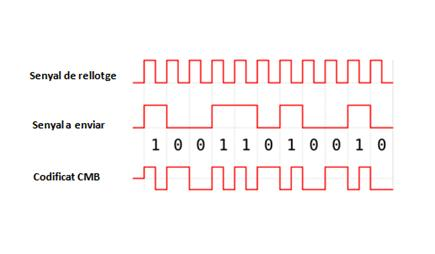 Biphaseal Mark Code example